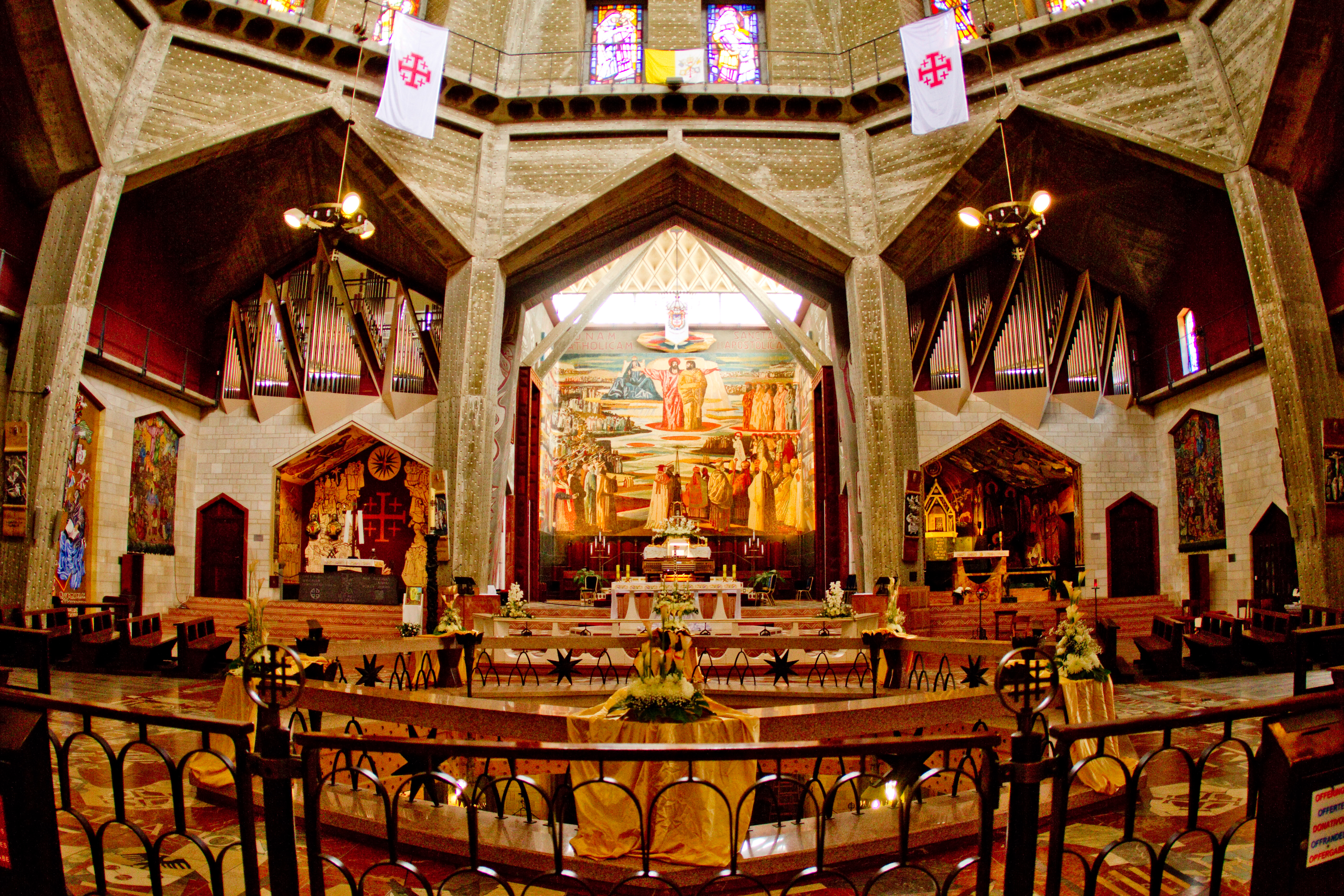 כנסיית הבשורה נצרת